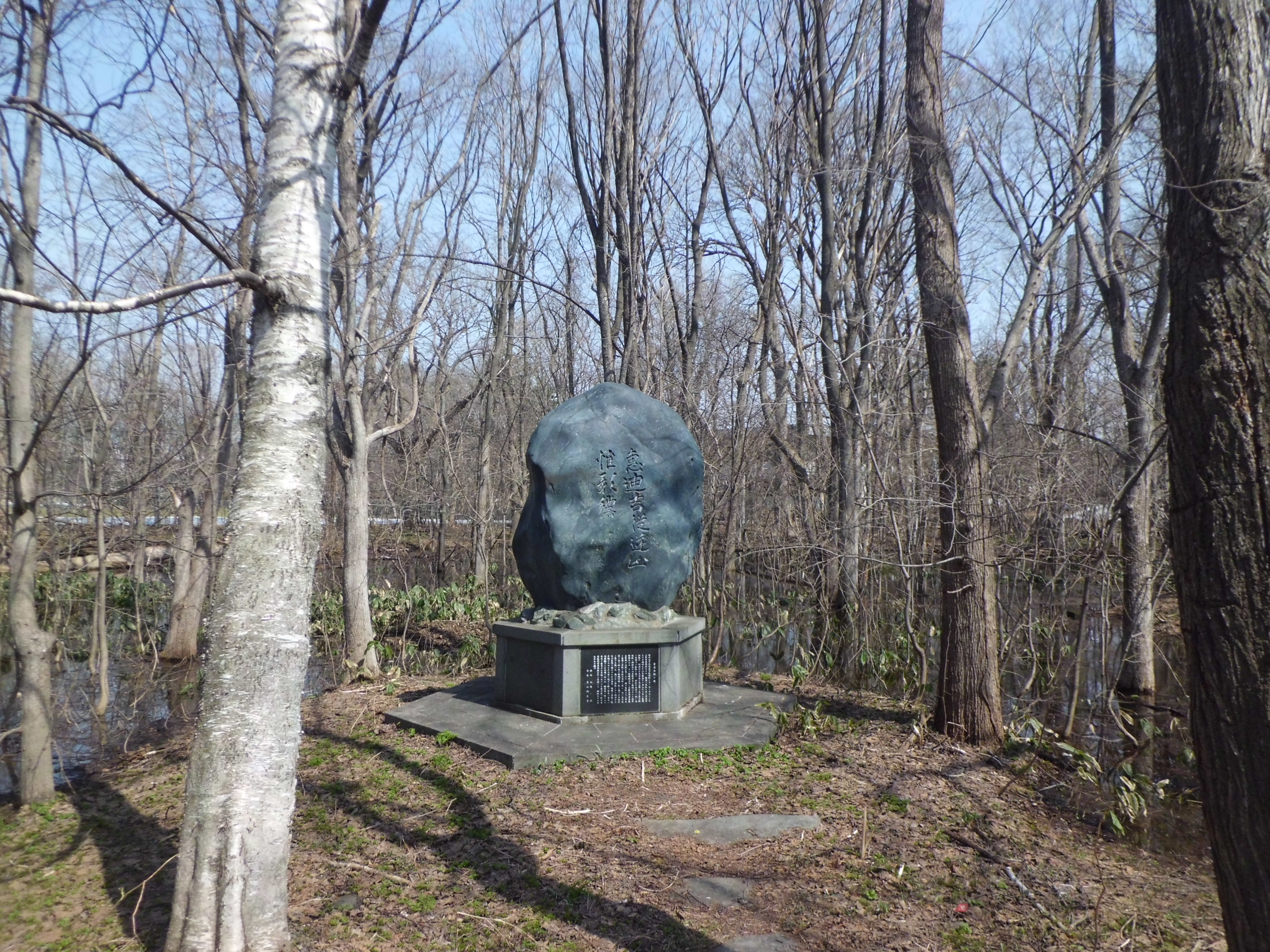 Monument to traces of dormitory in Hokkaido University